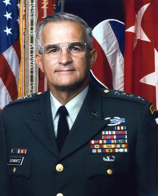 Photo of General Thomas A. Schwartz as FORSCOM Commander.